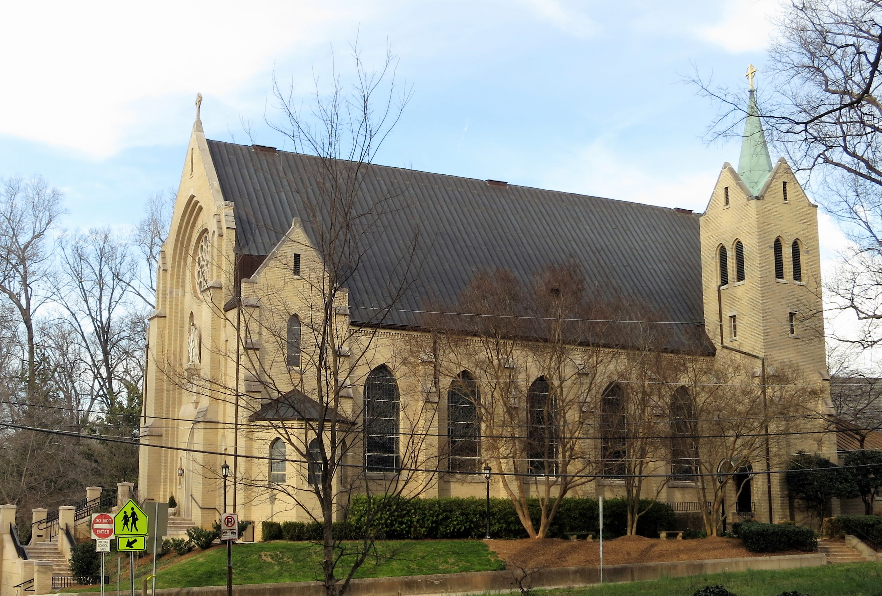 Cropped version of the Cathedral Church of Saint Patrick (Charlotte, North Carolina) - exterior 3